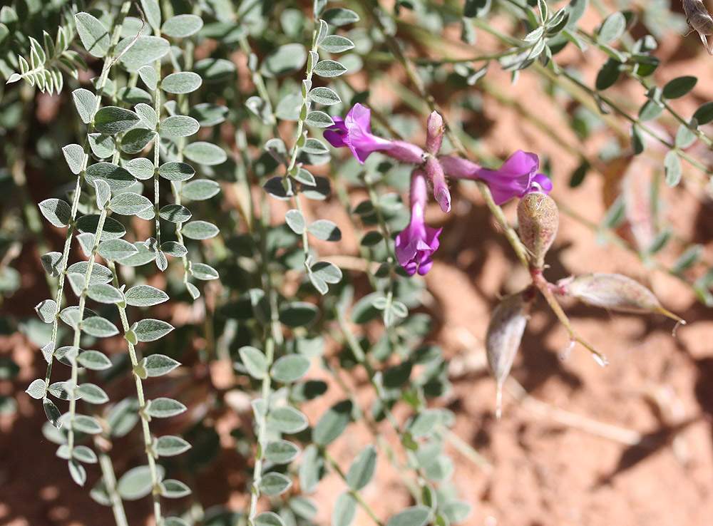 Zion Milkvetch bloom, leaves and seed pod, Zion Canyon, April 2016 Astragalus zionis